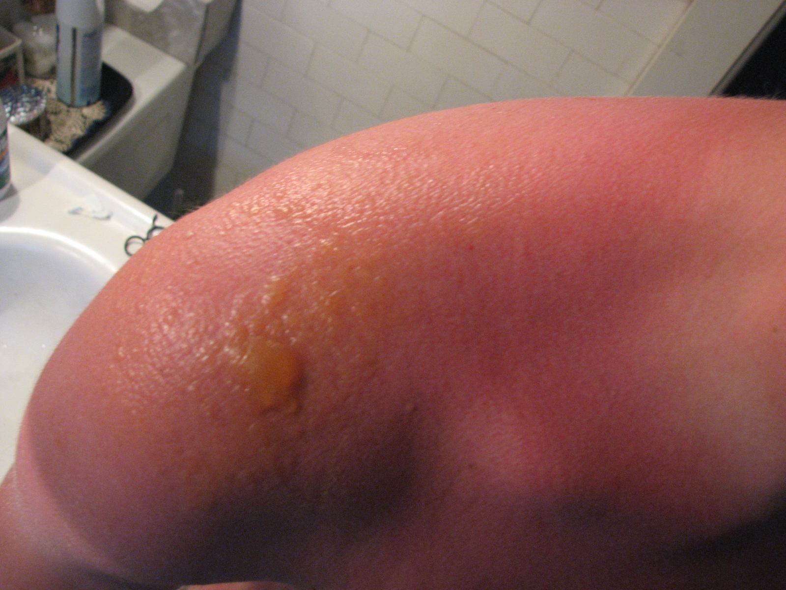 Severe sunburn and blisters on a shoulder, three days after a significant exposure to sun without sunscreen.